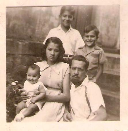 Arquivo Memorial Dr. Romildo Borges Mendes